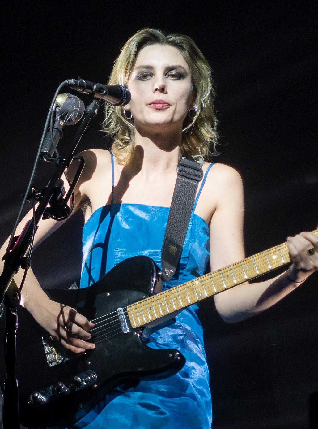 Wolf Alice performing live at The Mayan in downtown Los Angeles, California, on Monday, March 19, 2018.